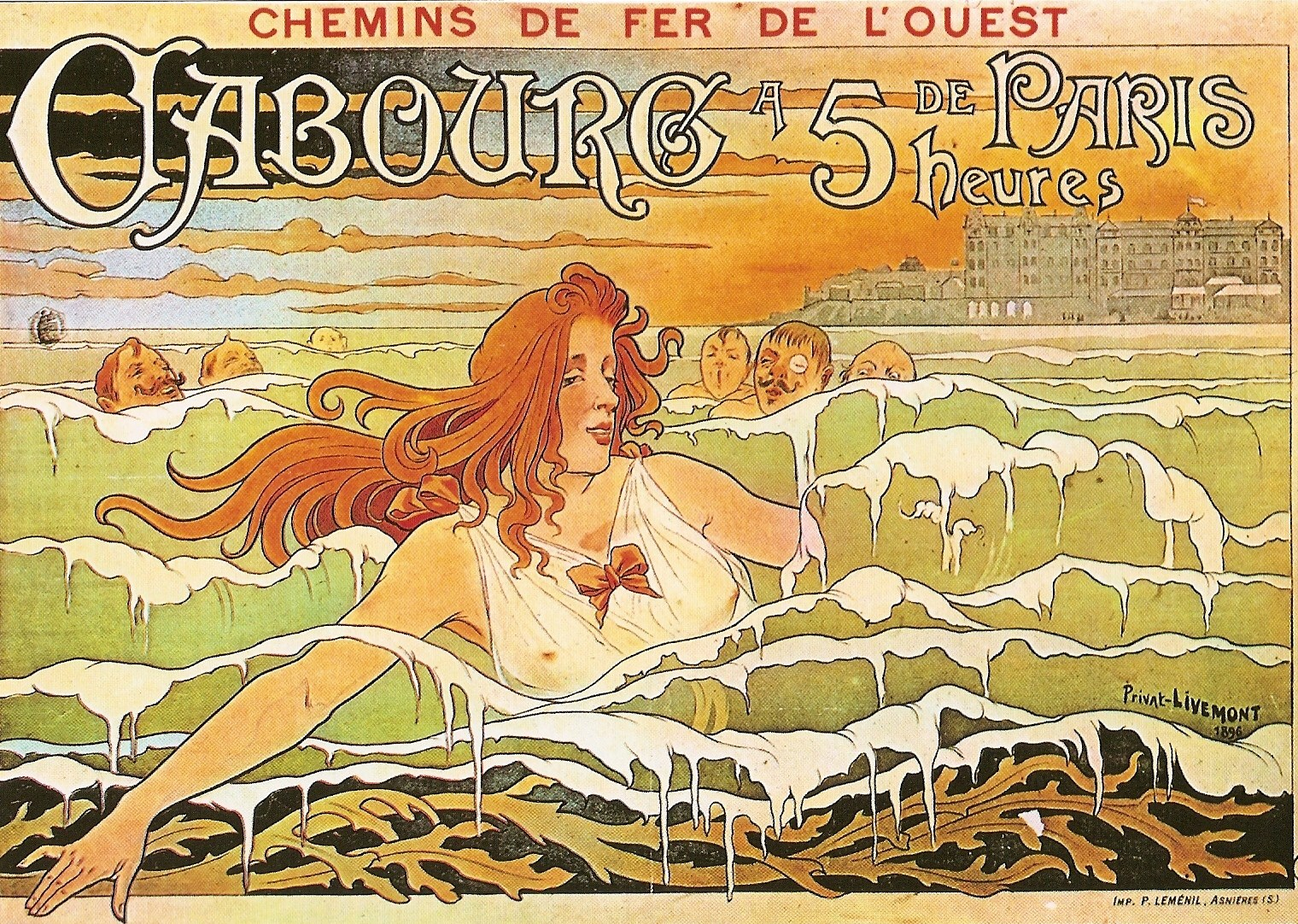 Poster of the former Compagnie des chemins de fer de l'Ouest (France): Cabourg